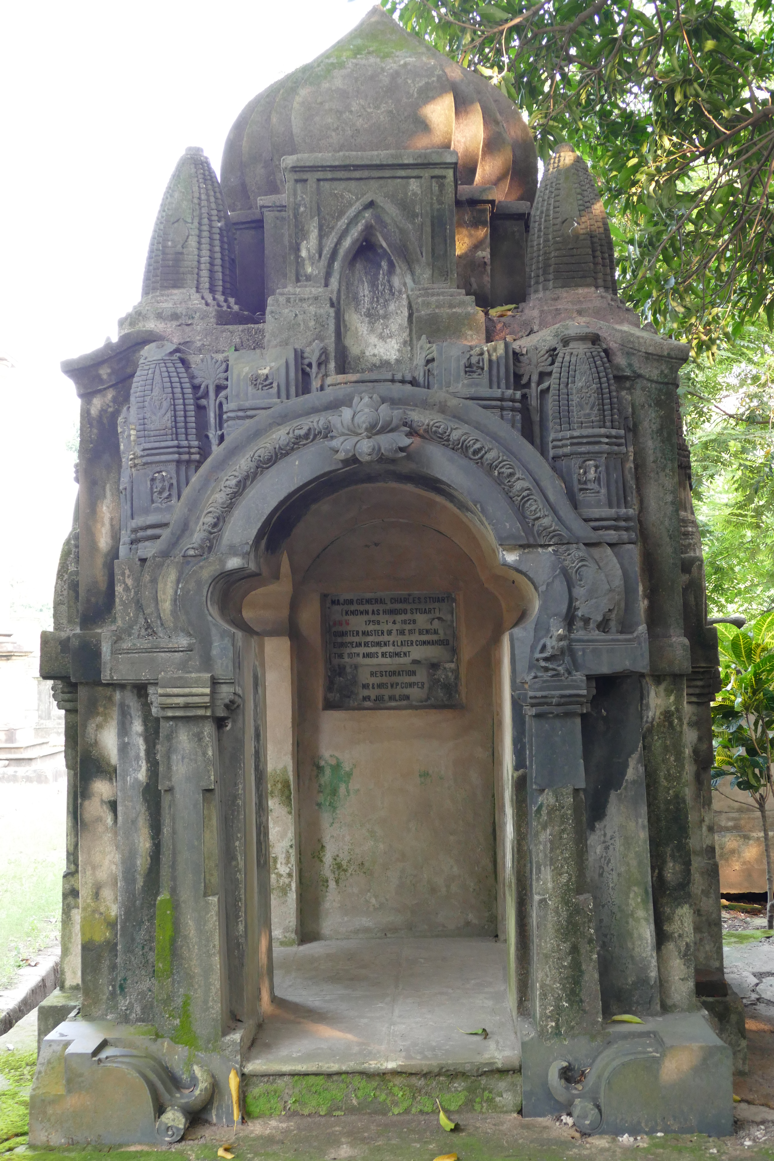 South Park Street Cemetery